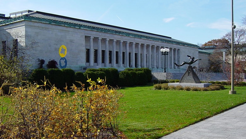 Photograph of the Monroe Street entrance of the Toledo Museum of Arten. Built in 1912 in the Greek Revival architectureen style, this art museumen is located in Toledo, Ohioen.